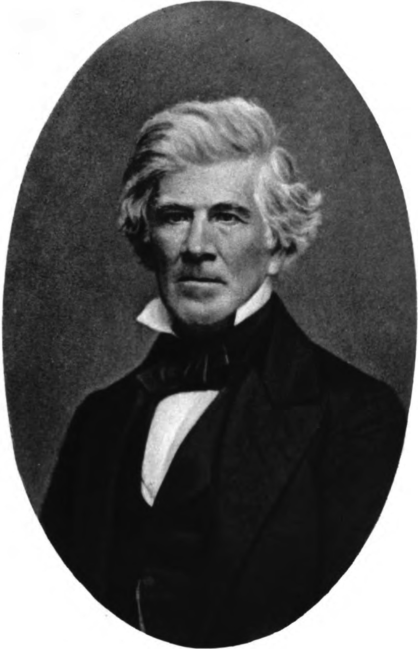 Lewis H. Machen, from "The Letters of Arthur Machen", 1917